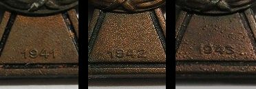 Hungarian Military Order "Cross Fire" years